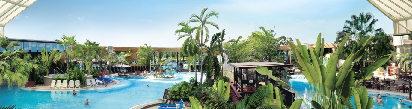 Indoor spa